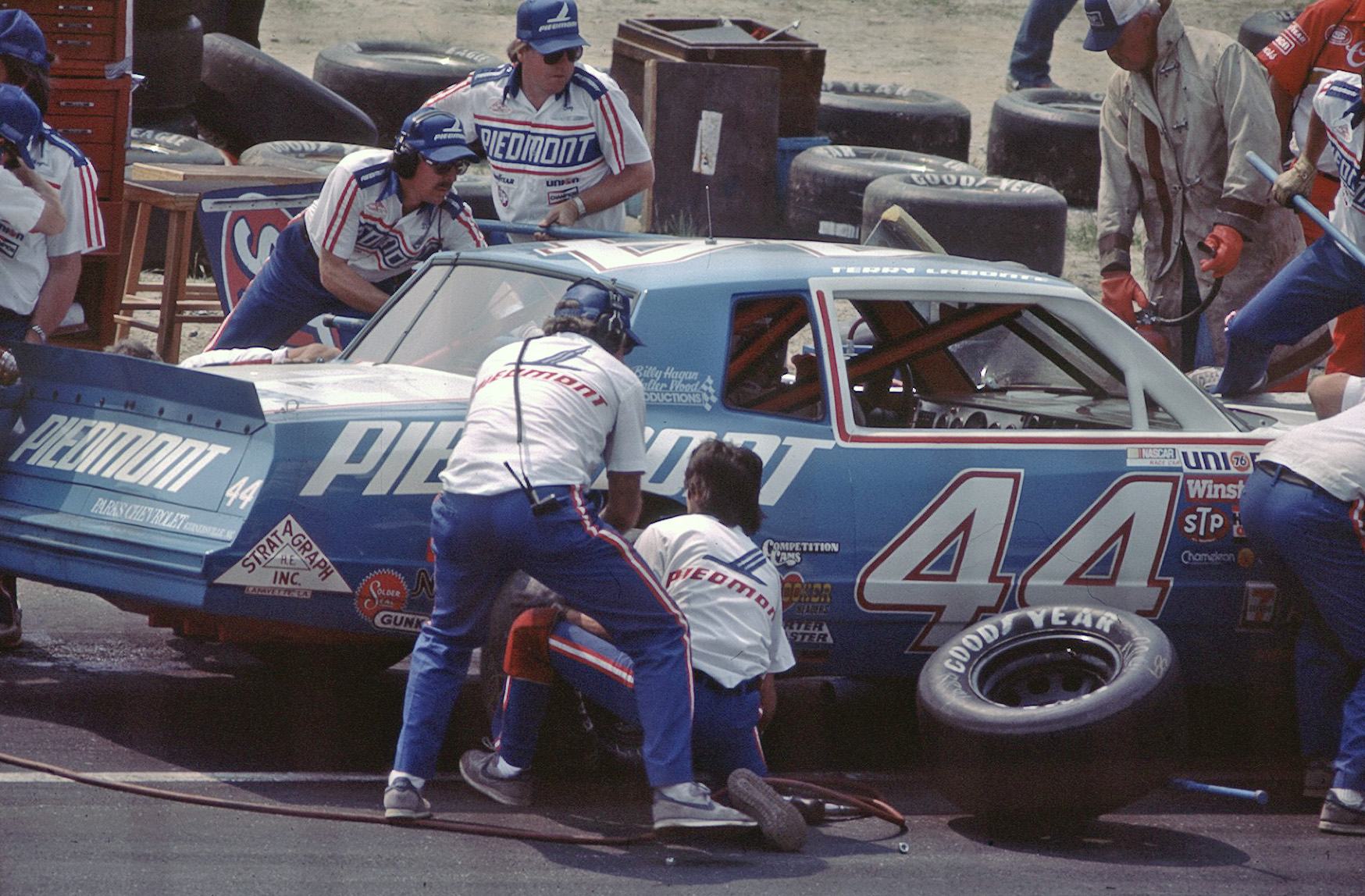 1984 NASCAR champion Terry Labonte during a pit stop